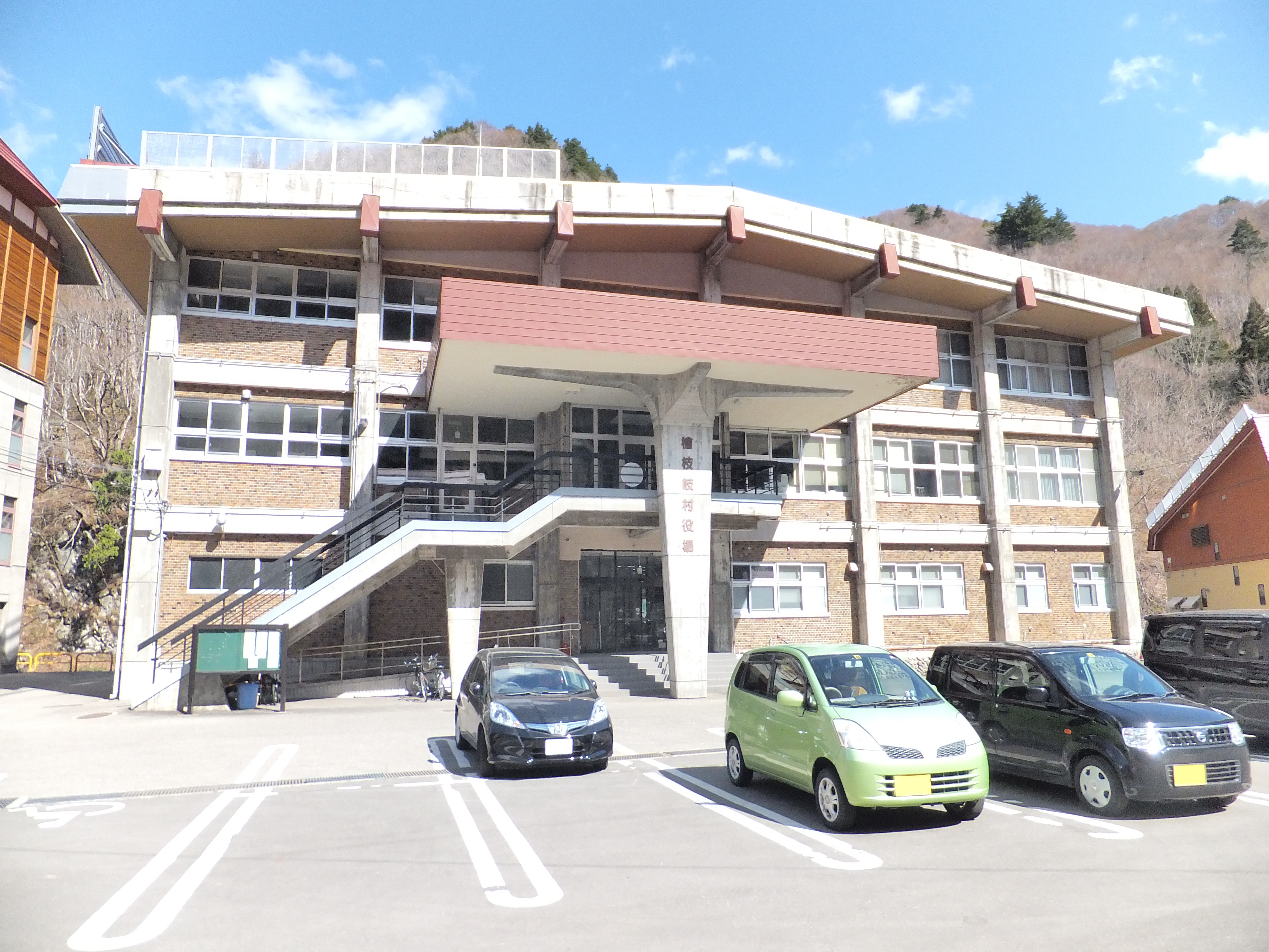 Hinoemata Village Office, Fukushma Pref., Japan.